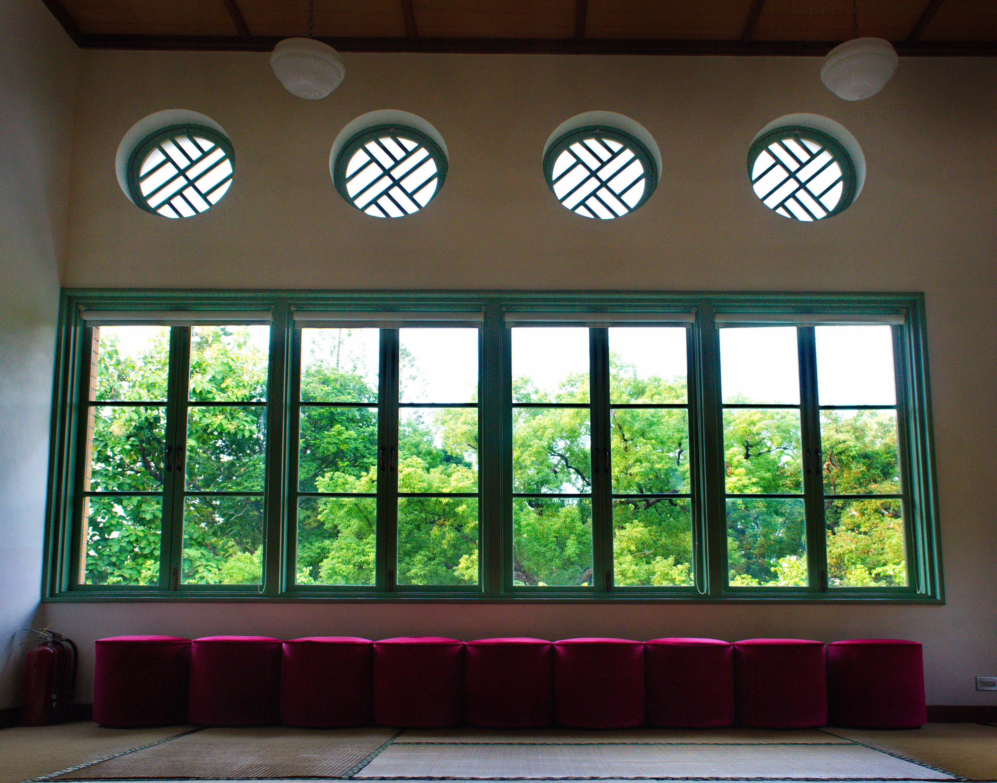 Former Tainan Broadcasting Bureau, Tainan City, Taiwan.